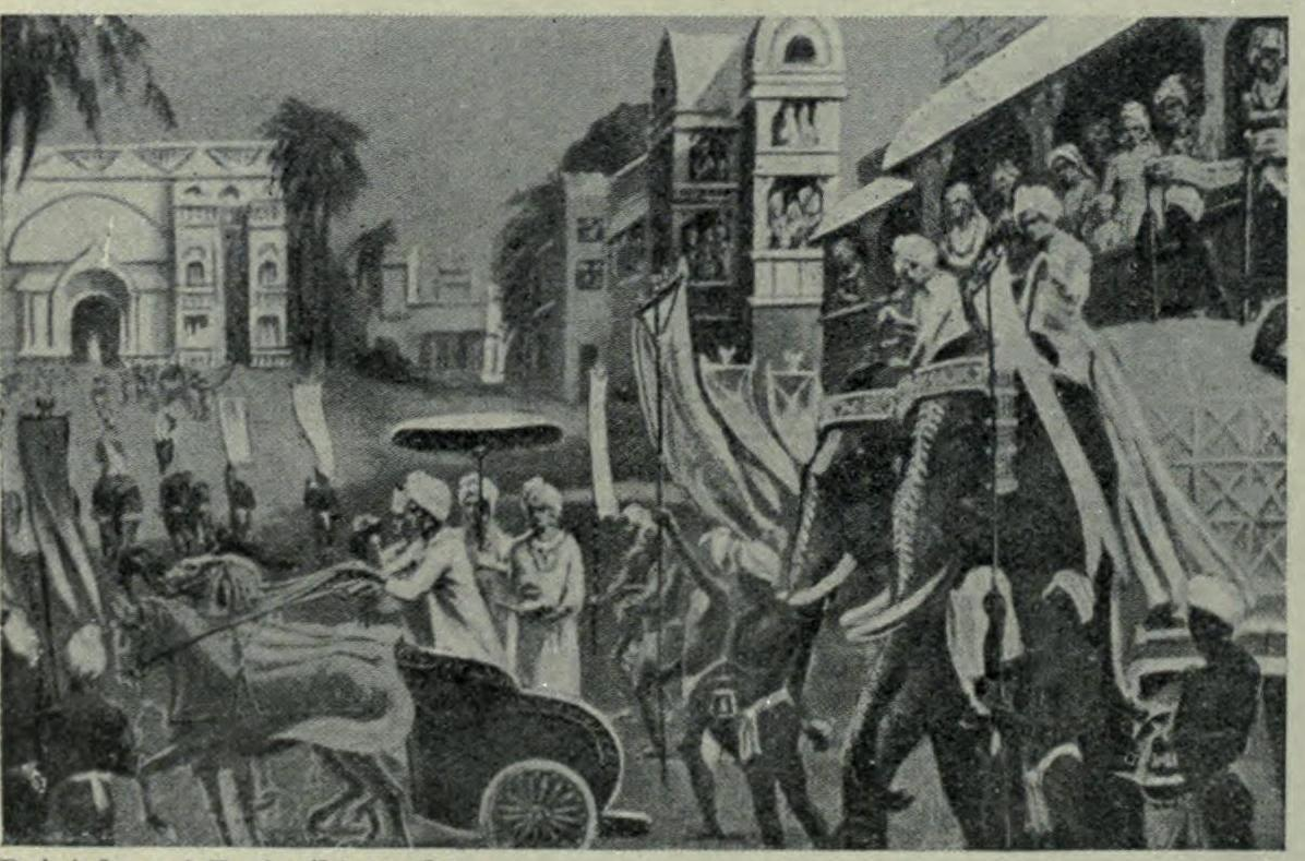 Prasenajit of Kosala pays a visti. From Hutchinson's story of the nations, containing the Egyptians, the Chinese, India, the Babylonian nation, the Hittites, the Assyrians, the Phoenicians and the Carthaginians, the Phrygians, the Lydians, and other nations of Asia Minor.